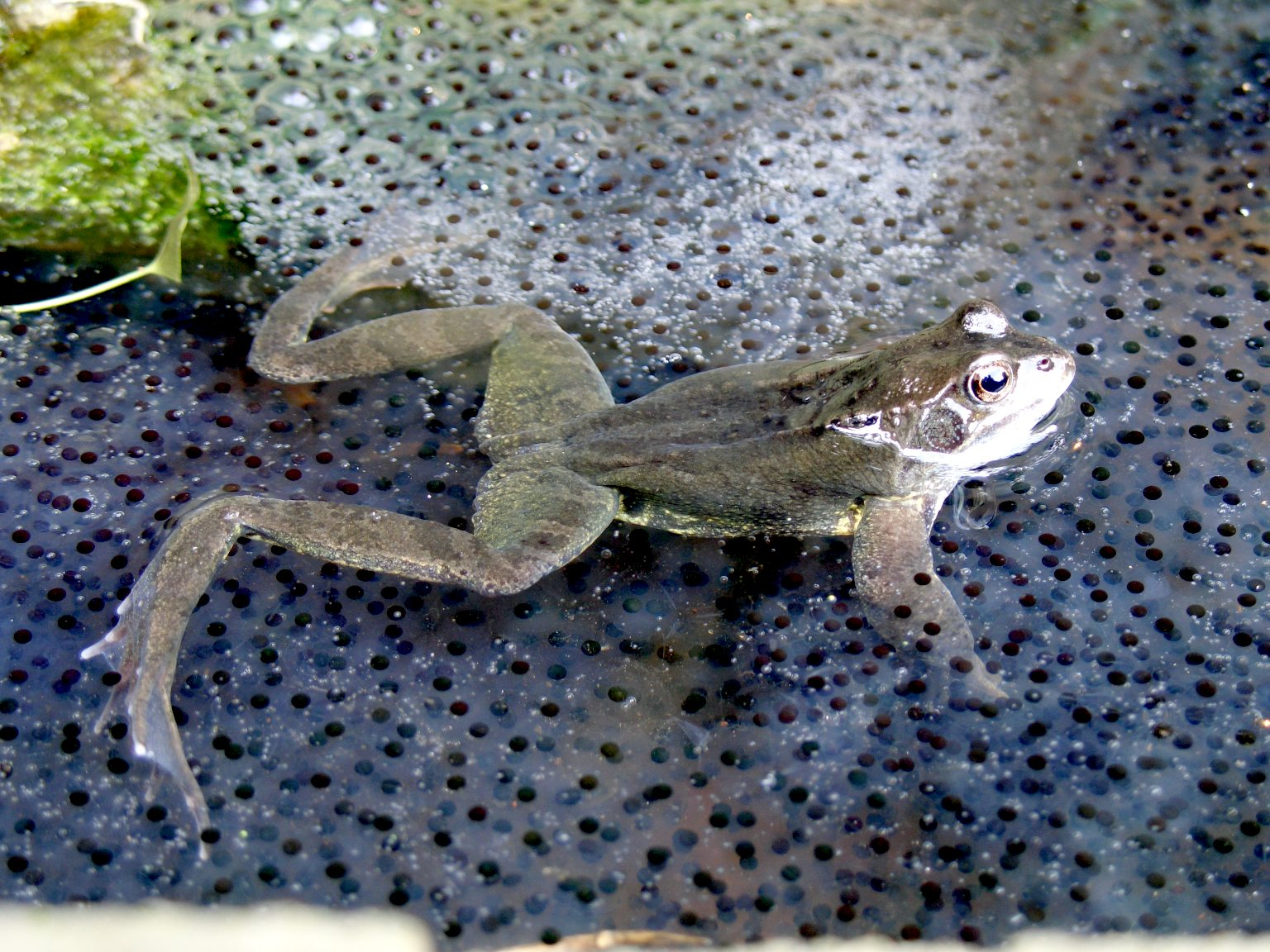 A garden frog (species Rana temporaria), swimming in a pond full of frogspawn (frog eggs).